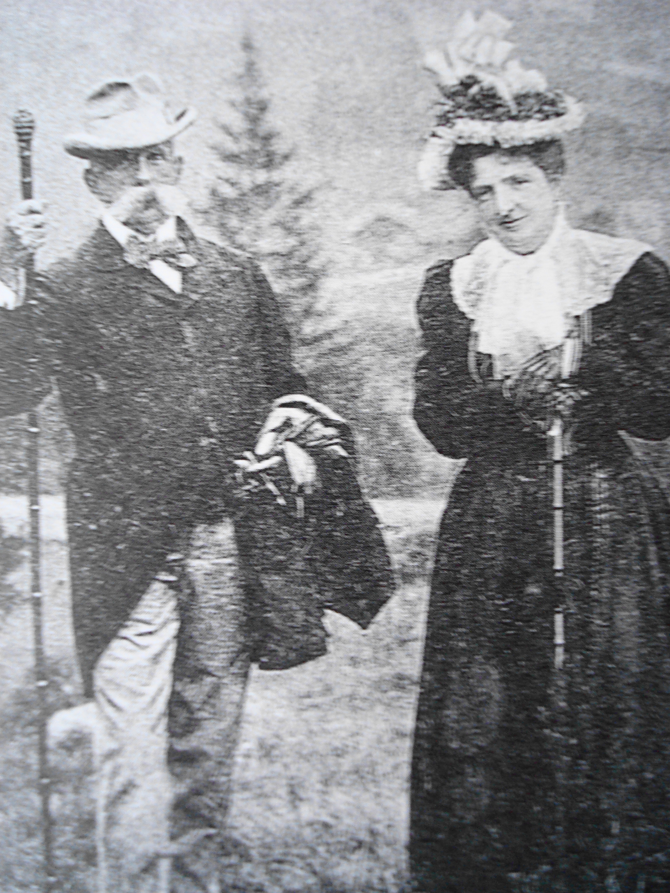 King Umberto I of Italy in the late 1890s, with his wife, queen Margherita of Italy.